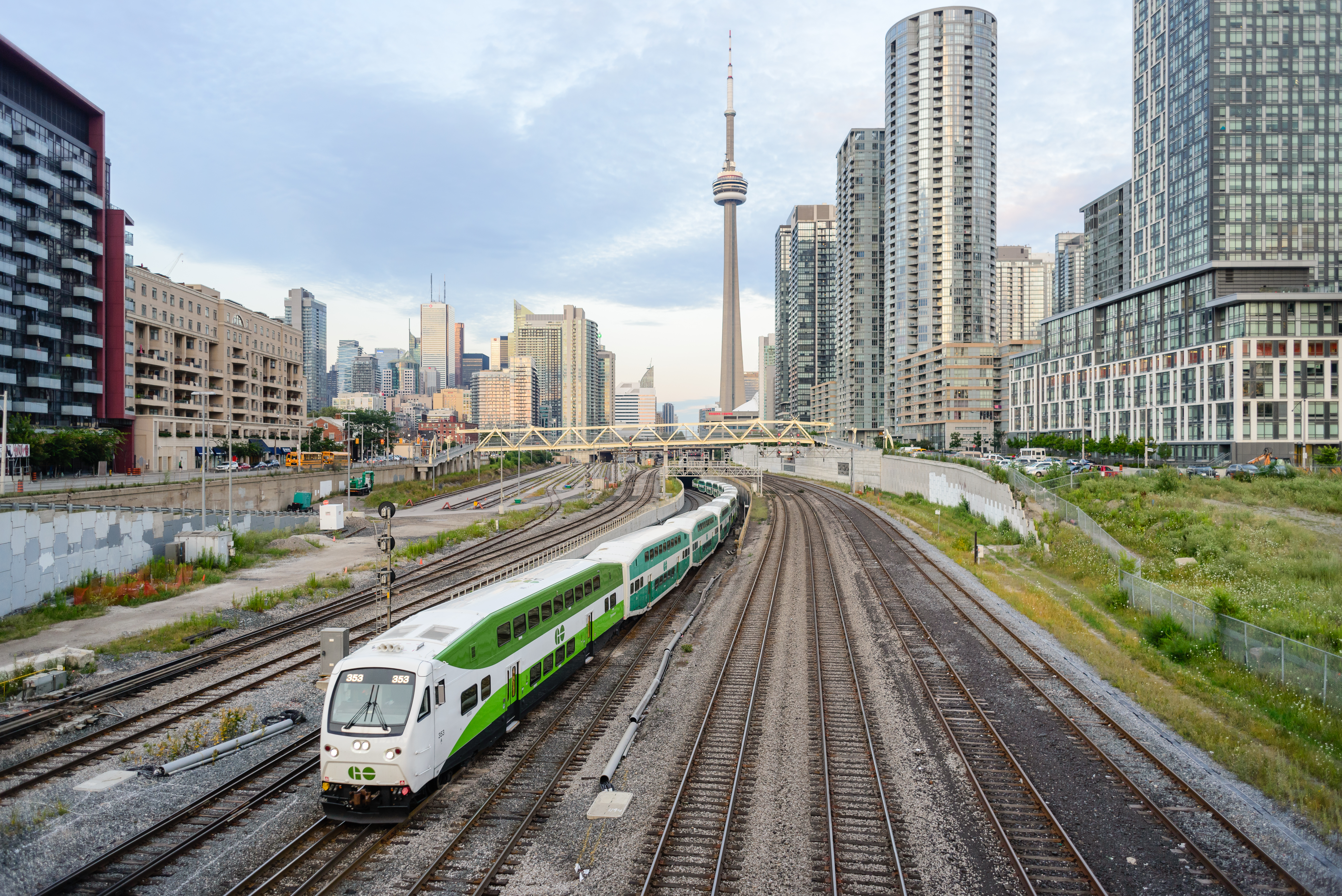 A GO Transit train leaving Toronto. In the background, the CN Tower.